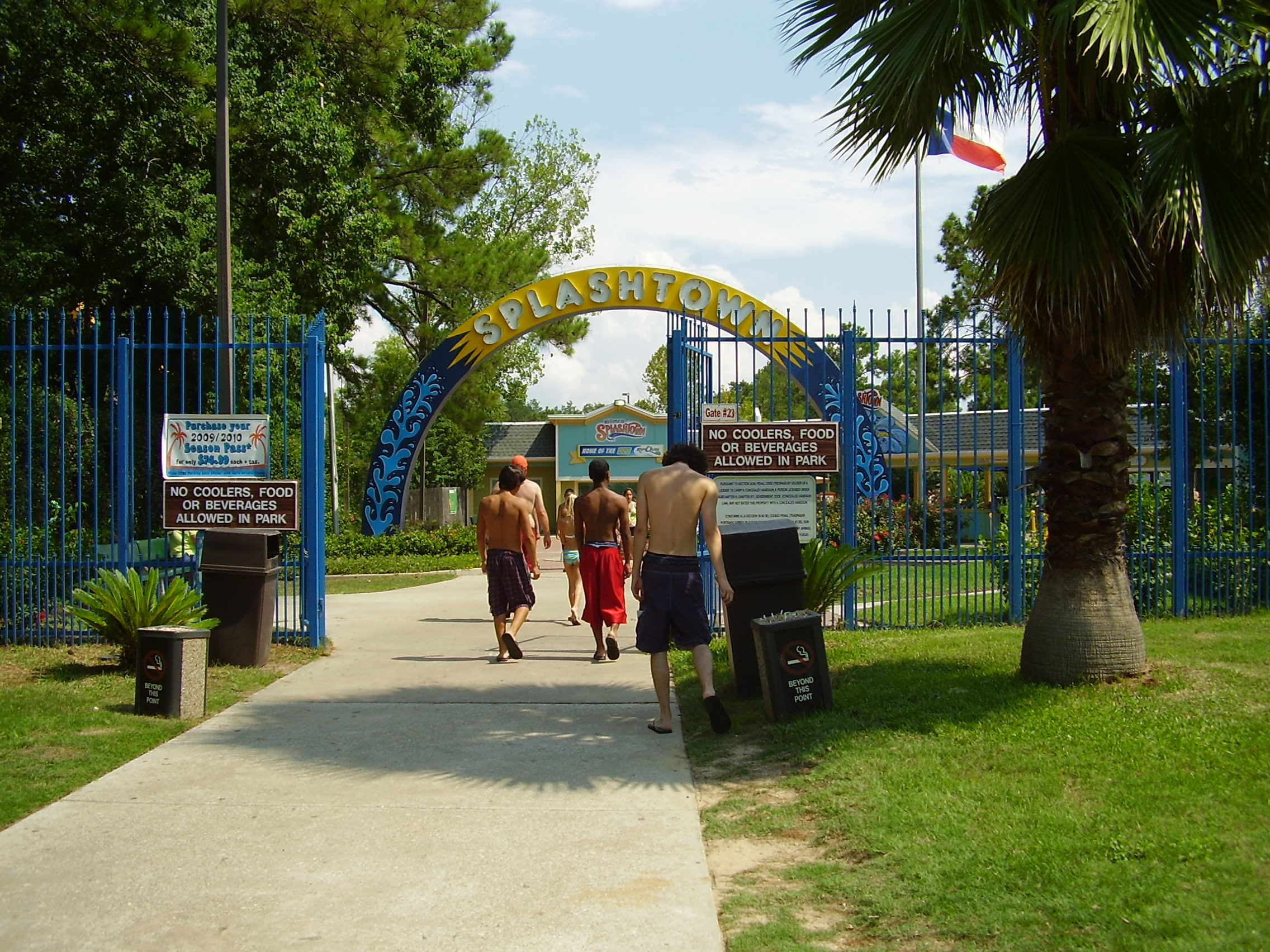 SplashTown Waterpark Houston